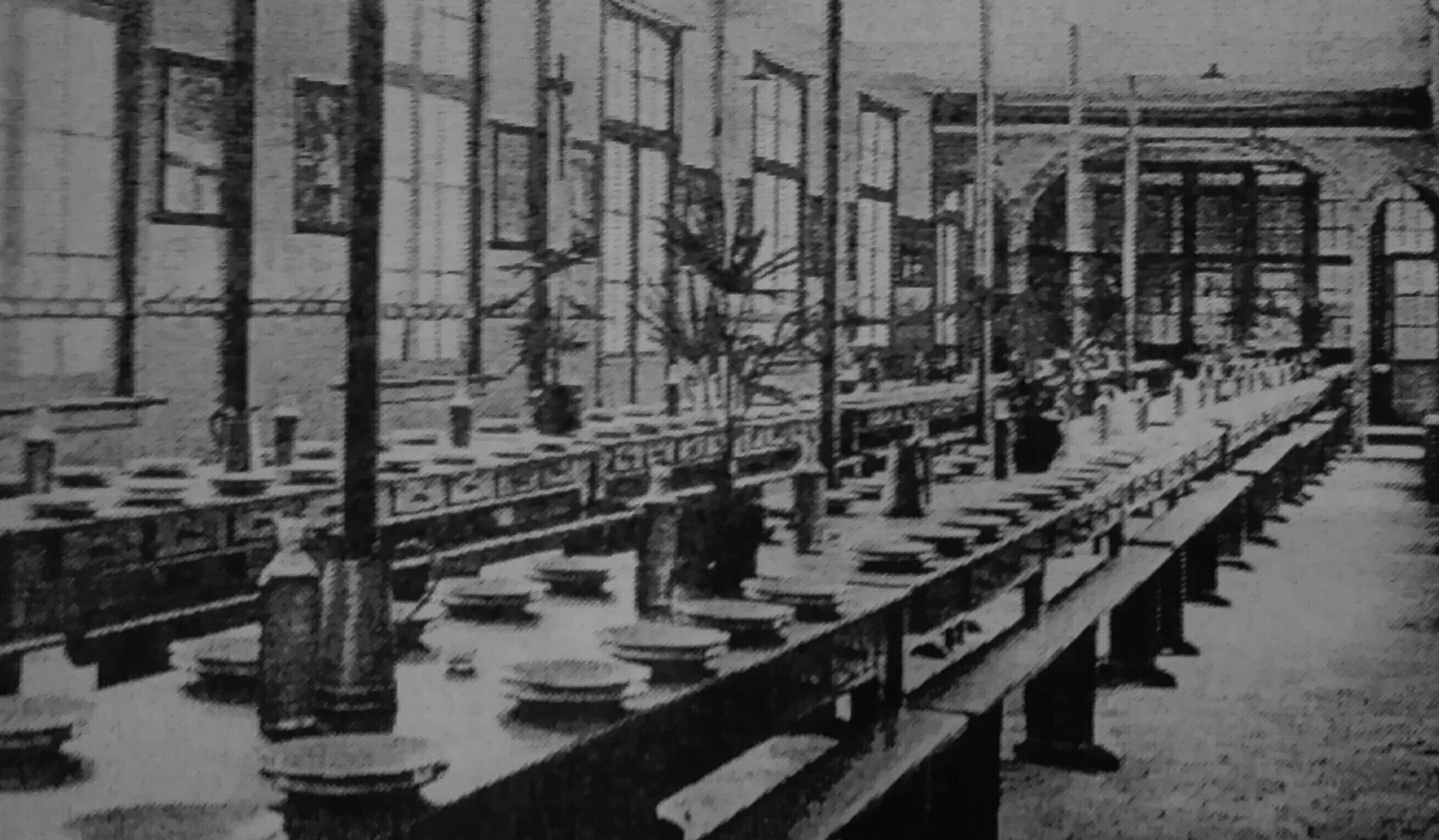 Old picture from the dining room of the Sint-Gabriëlcollege in Boechout (Belgium). The author is unknown and the picture is older than 70 years.